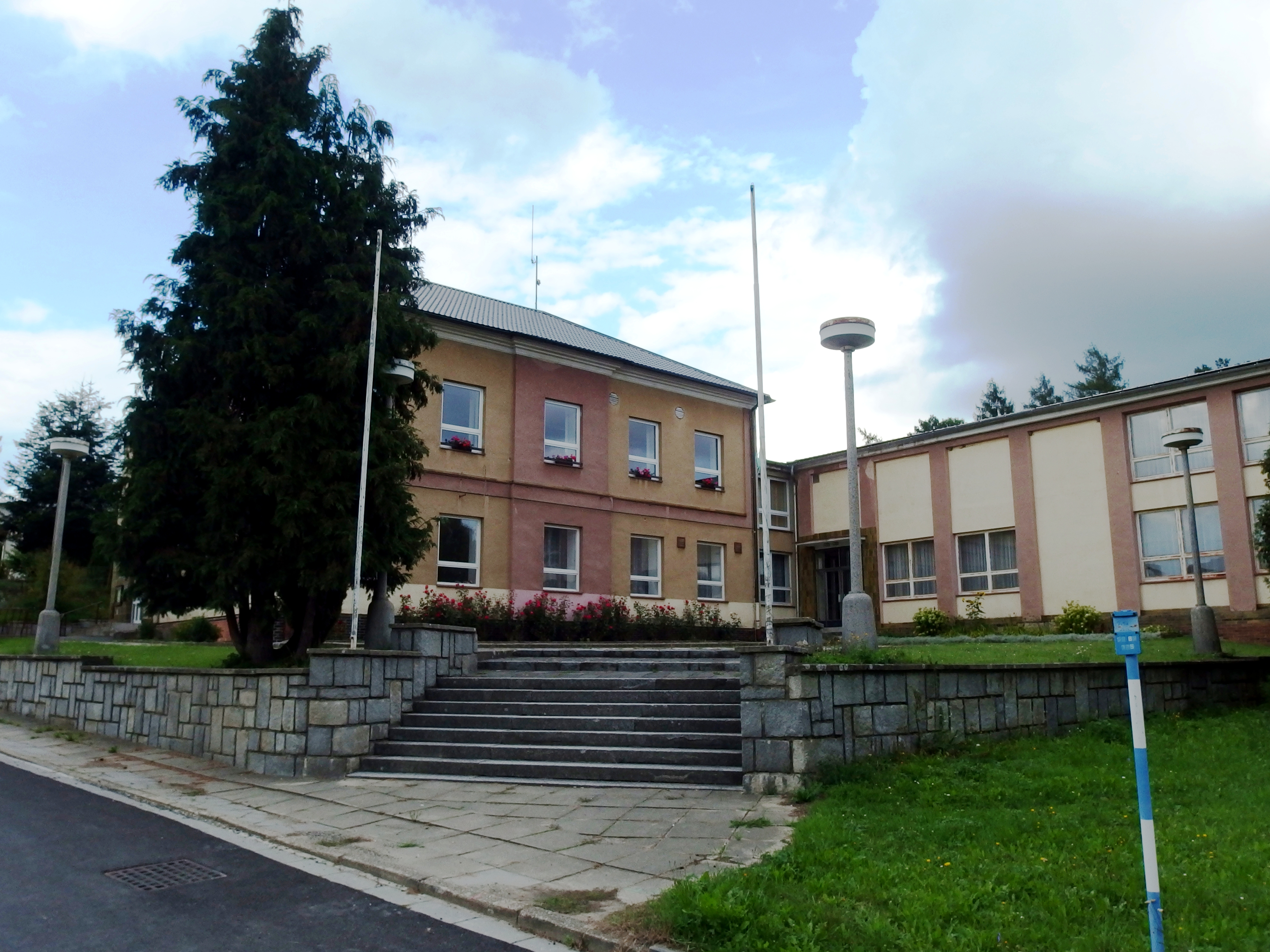 Hrabišín, Šumperk District, Czech Republic.